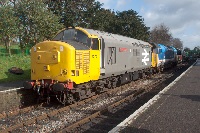 Class 37/9 37901 Mirlees Pioneer at Ropley. Numbering history: D6850, 37150 37901